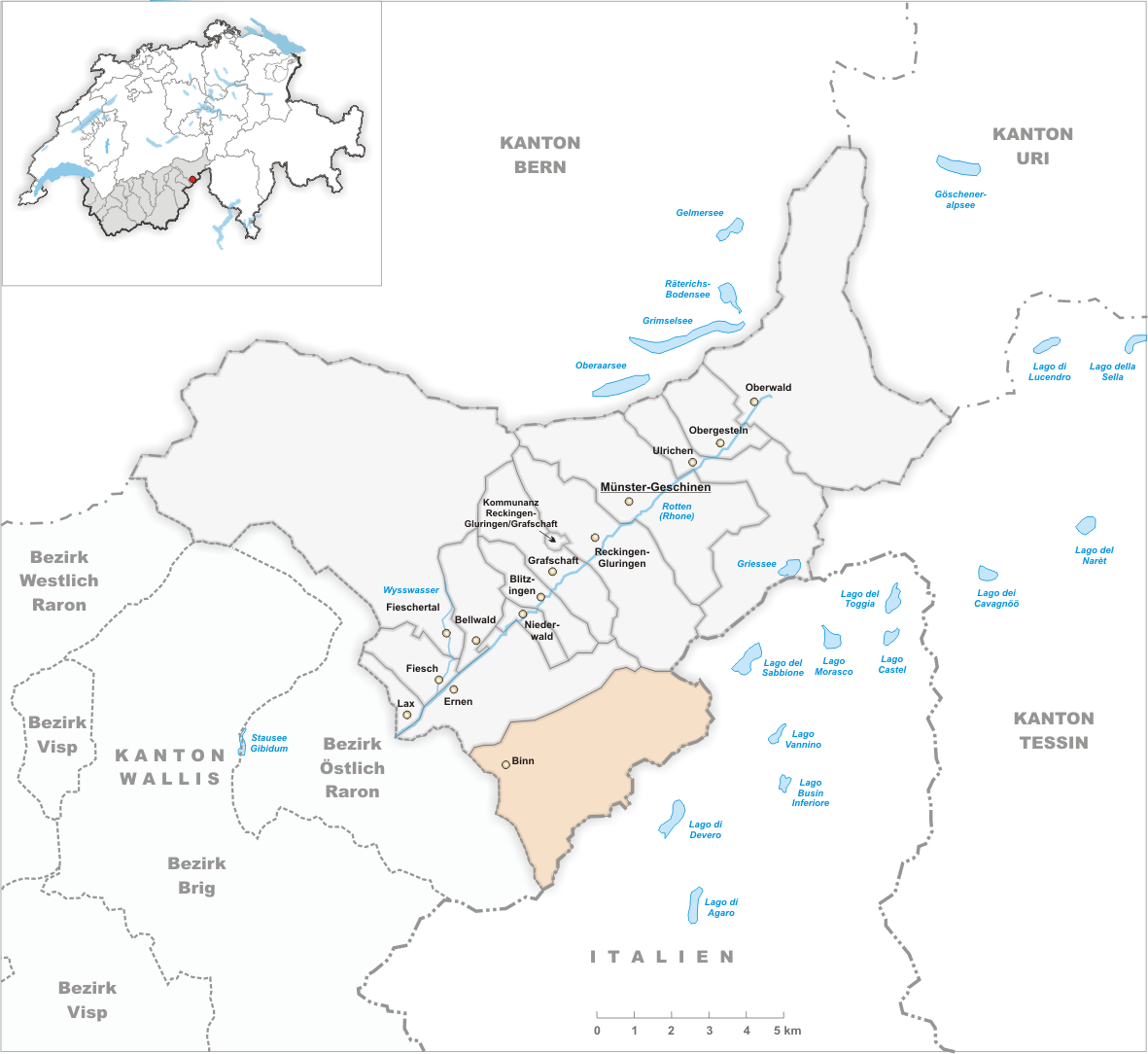 Municipality Binn